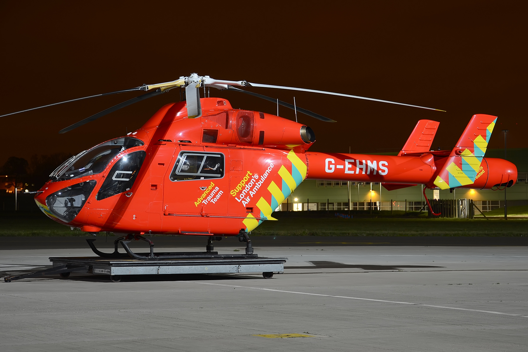 G-EHMS MD Helicopters MD-902 Explorer